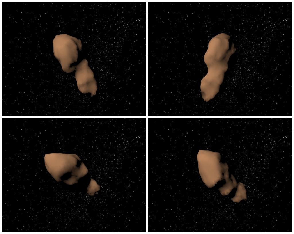 These four views of the (4179) Toutatis computer model show shallow craters, linear ridges and a deep topographic "neck" whose geologic origin is not known. It may have been sculpted by impacts into a single, coherent body, or this asteroid might actually consist of two separate objects that came together in a gentle collision. Toutatis is about 4.6 kilometers (3 miles) long and the resolution of the computer model is about 84 meters.